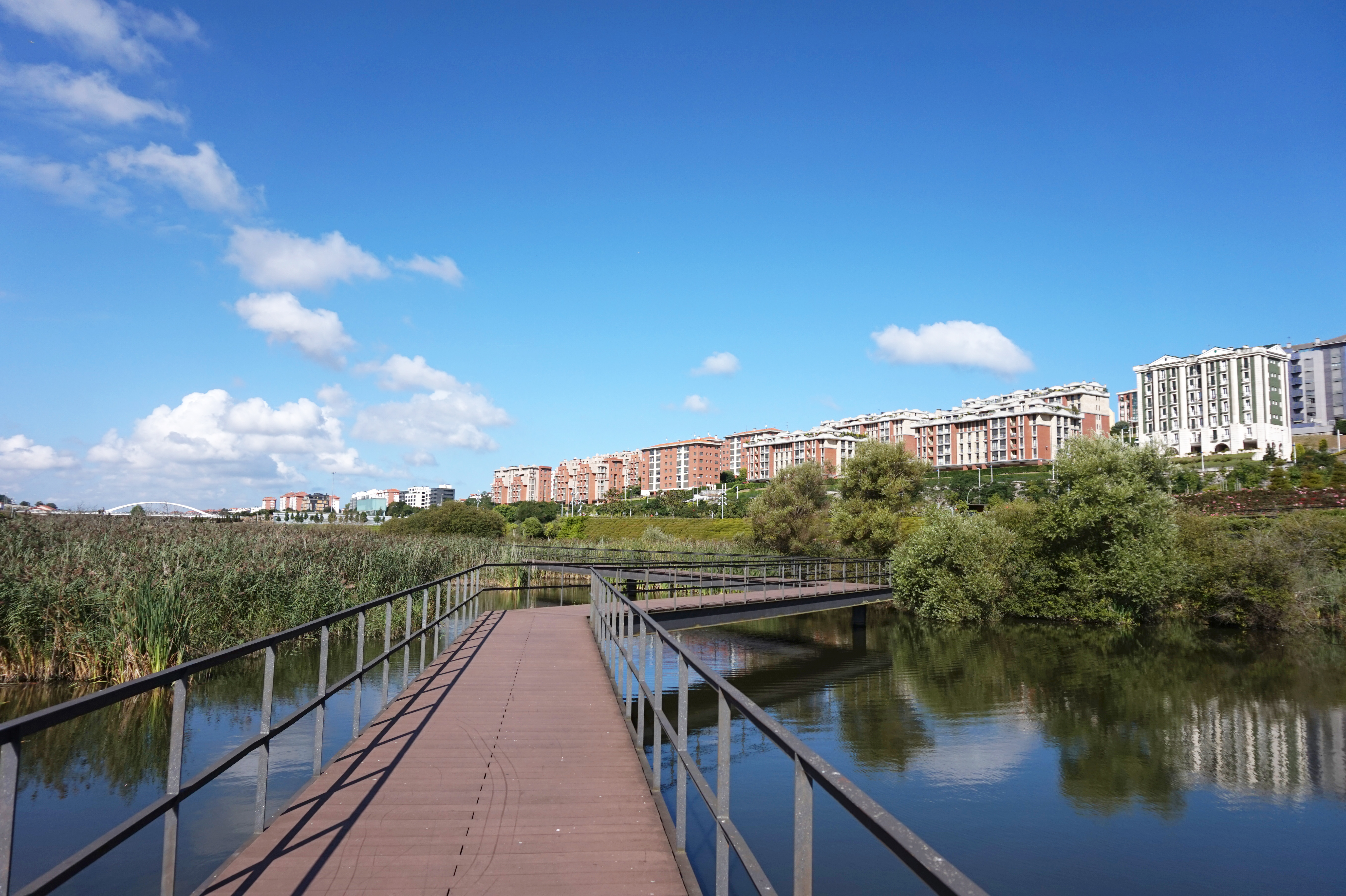 Parque de las Llamas in Santander, Spain. This photograph was taken with a Sony Alpha a5000.